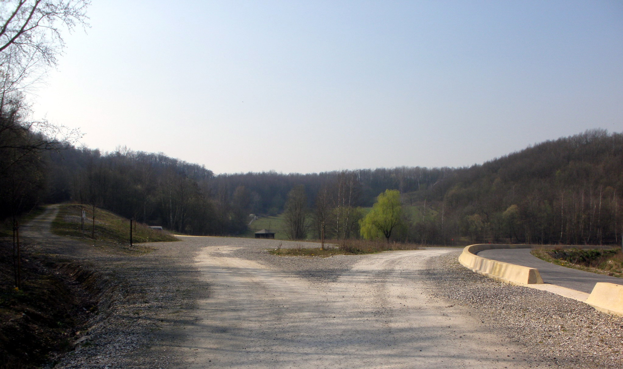 Maastricht, the Netherlands. View of new walking paths and cycle lane (right) on the hill Sint-Pietersberg, South of the ENCI quarry and cement factory. Landscape refurbishment is underway in this area as part of the closure of the quarry in 2018.